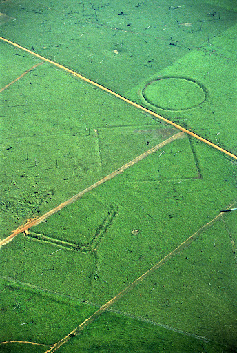 Geoglyphs on deforested land at the Fazenda Colorada site in the Amazon rainforest, Rio Branco area, Acre. Site dated c. AD 1283. (More facts)